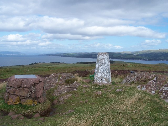 View from The Glaidstane, the highest point on the island of (Great) Cumbrae.